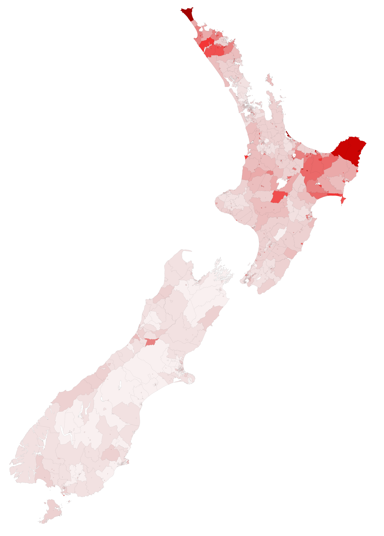 Map showing the percentage of people identifying as ethnically Maori (possibly as one of multiple ethnic identifications) across New Zealand in the 2006 census. Darker colouring indicates a higher proportion of people identifying as Maori, with the darkest shade representing 90% or above.